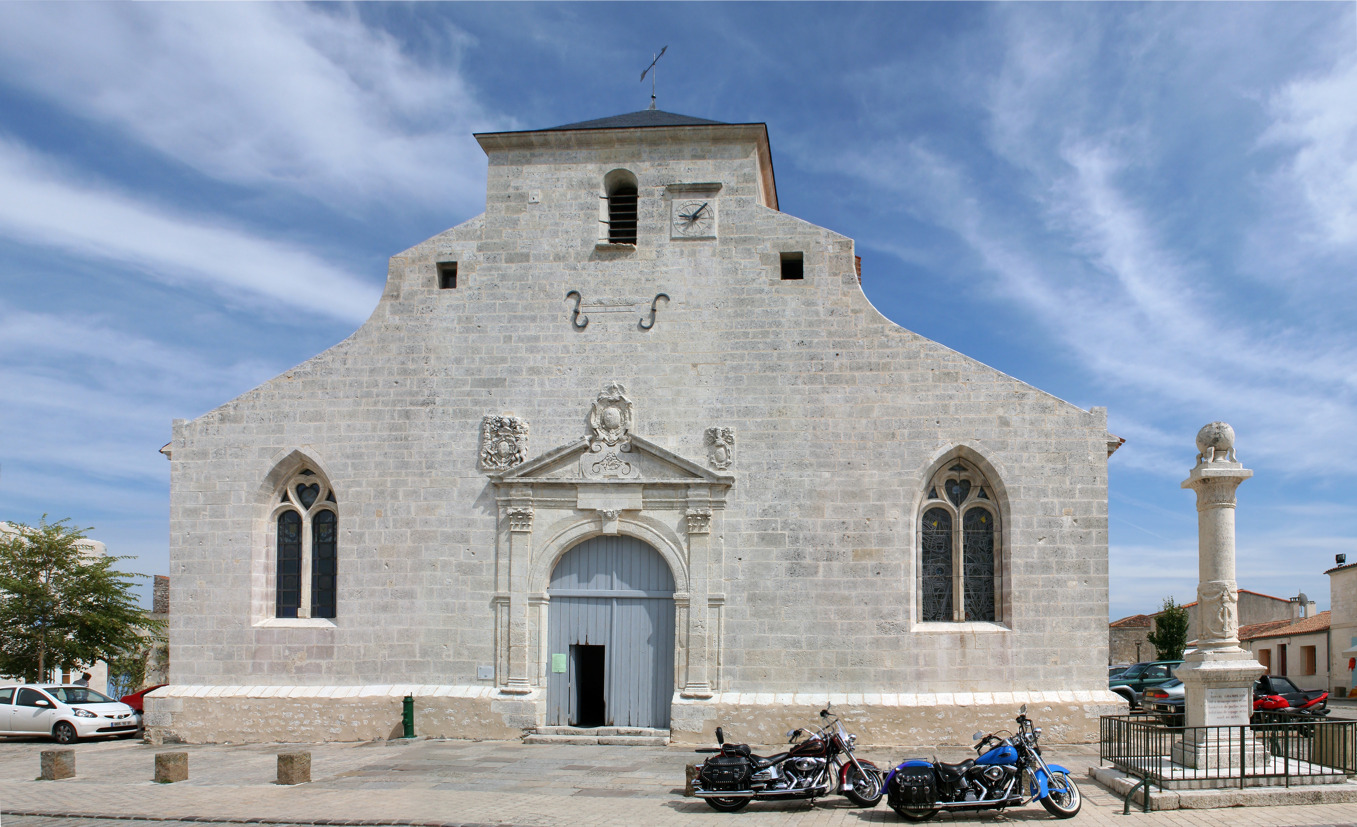 The church in the tiny town of Brouage, in Charente-Maritime (France), with the monument to Samuel de Champlain at its right. Samuel de Champlain is born in brouage, and prayed in this church between 1629 and 1632. The church was restaured thanks to funds from the canadian government and the city of Quebec.